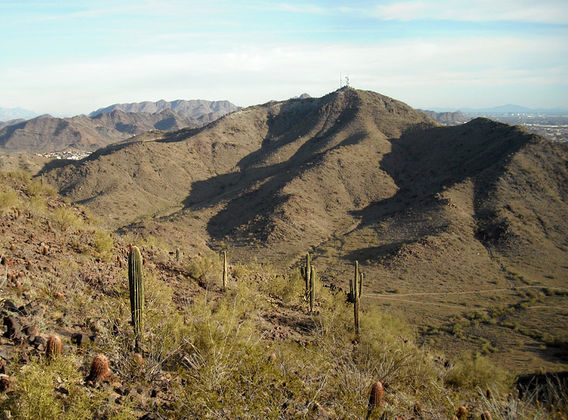 North Mountain as seen from the summit trail of Shaw Butte, Phoenix, AZ.